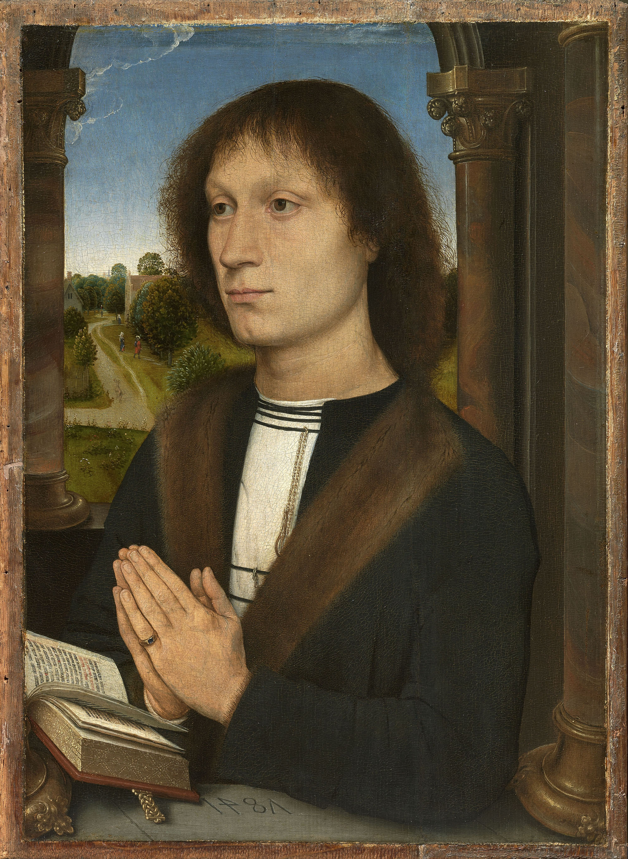 Probably portrait of Benedetto Portinari